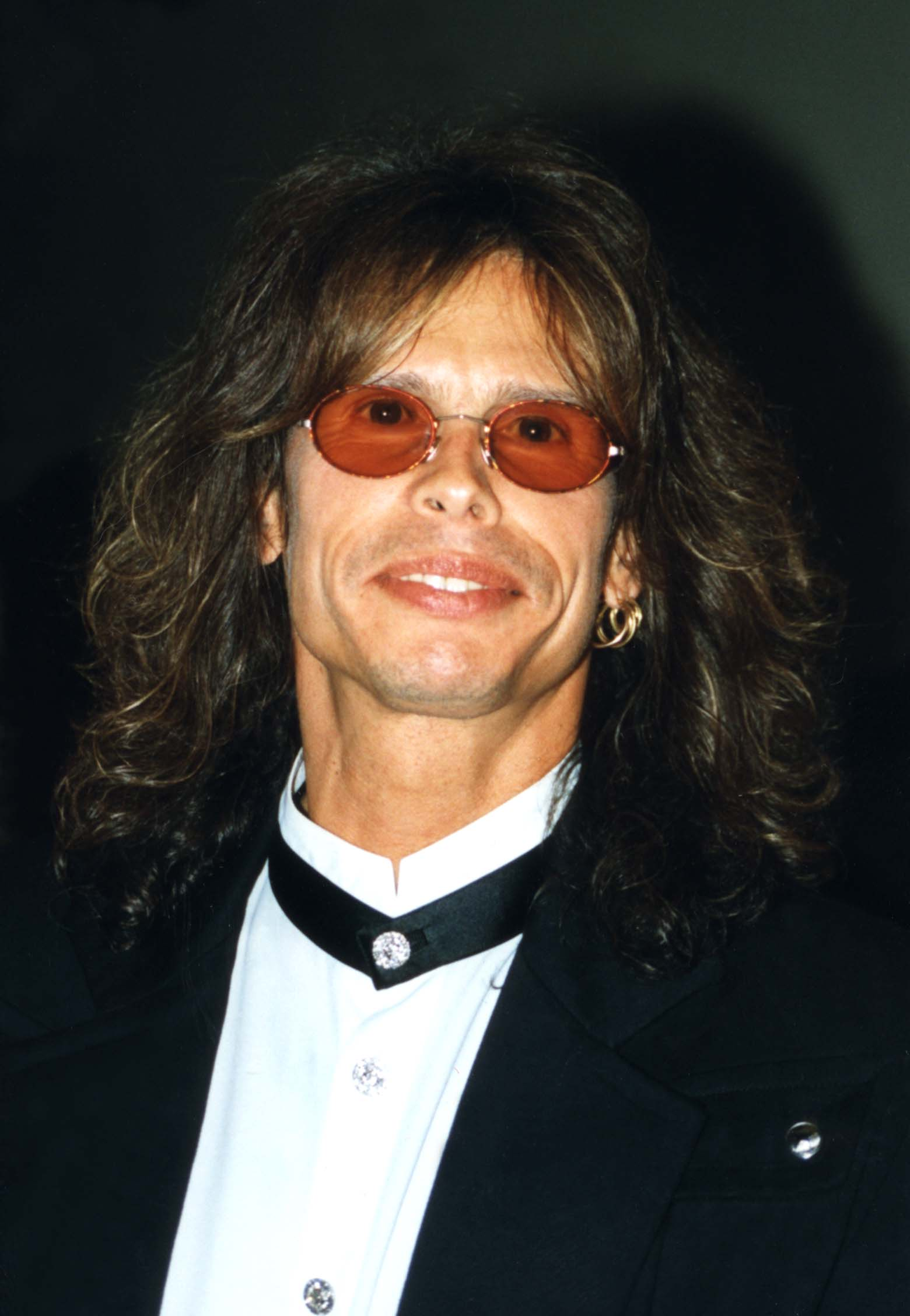 STEVEN TYLER of Aerosmith W.H.C. 1996